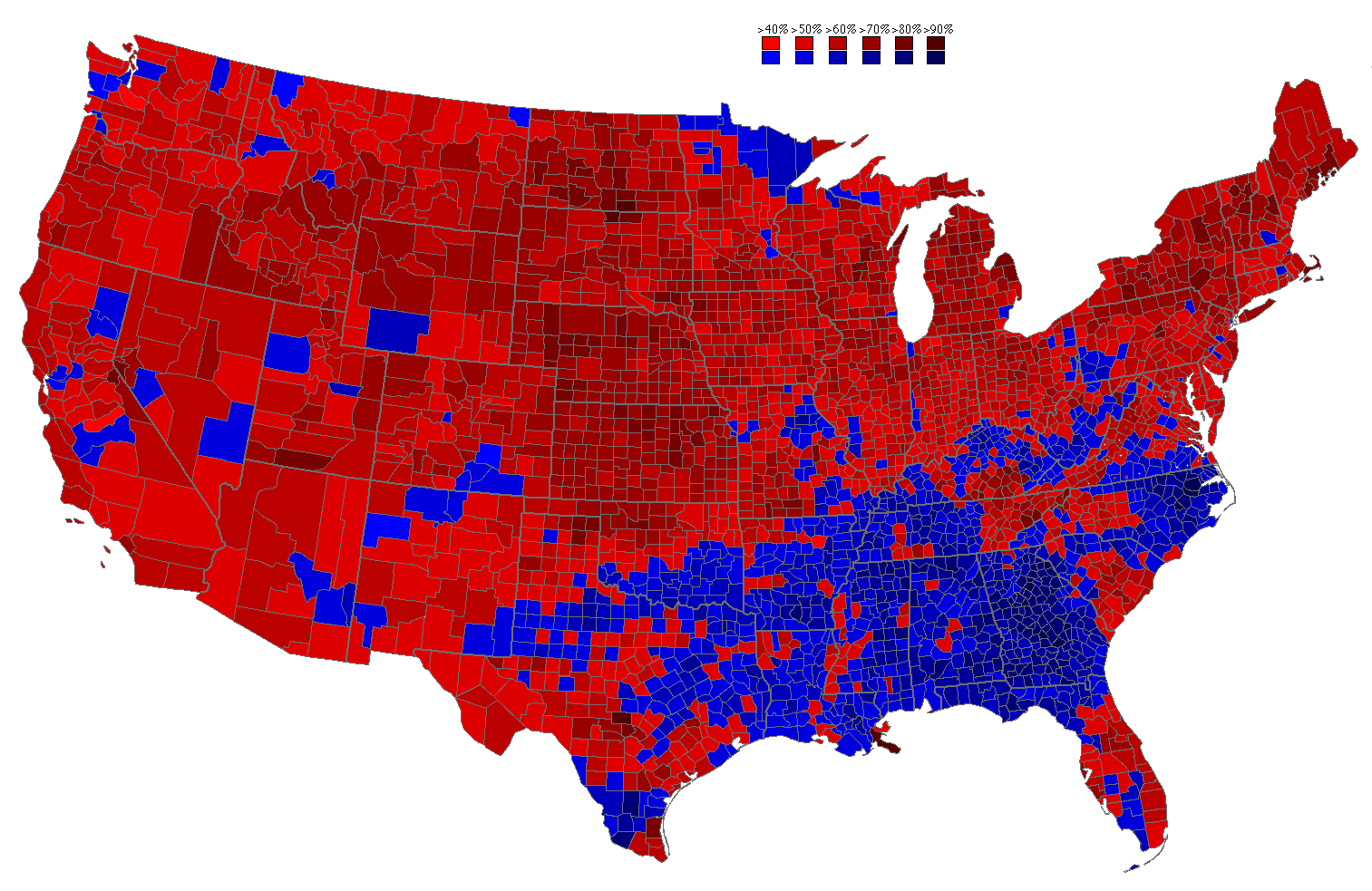 Presidential election results by county (1952).